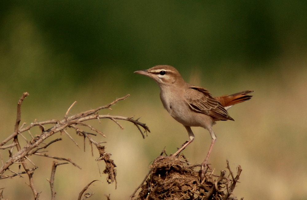 Rufous Bush Robin Li Qoruxçîya Bismilê ji aliyê min ve hatiye kişandin.